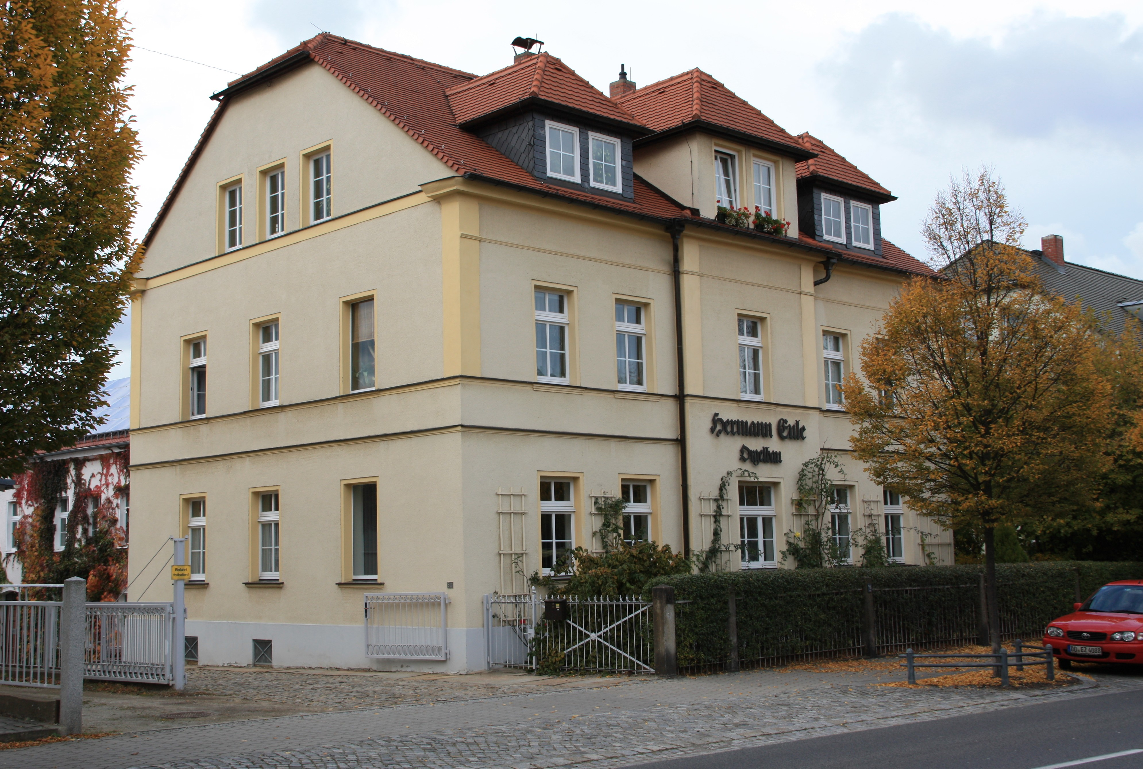 Hermann Eule Orgelbau Bautzen headquarters, Wilthener Straße 6, Bautzen.